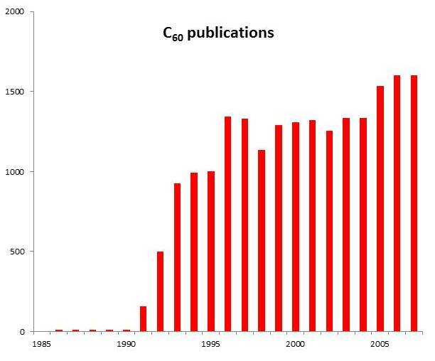 C60 publications per year. Data from Andreas Bart and Werner Marx